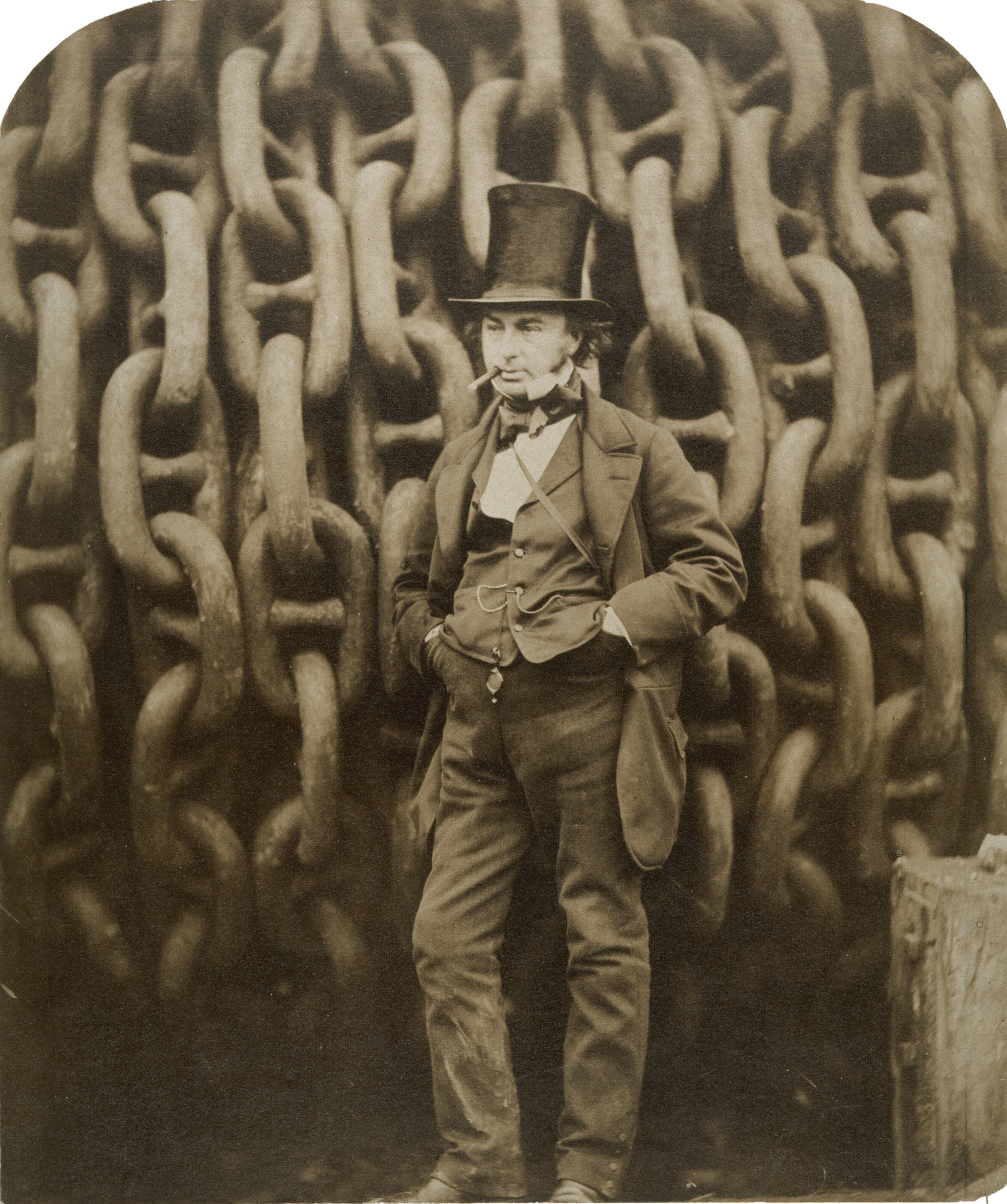 Isambard Kingdom Brunel against the launching chains of the Great Eastern at Millwall in 1857, photo by Robert Howlett (1831–1858).